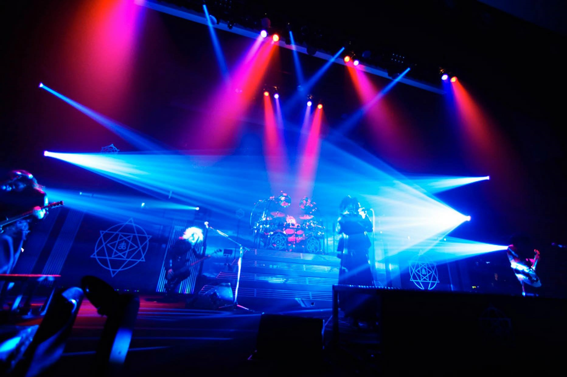 the GazettE DOGMA Live September 6, 2015